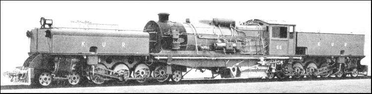 Beyer, Peacock and Company works photo of Kenya-Uganda Railway EC1 class locomotive no. 66 (front and side view).